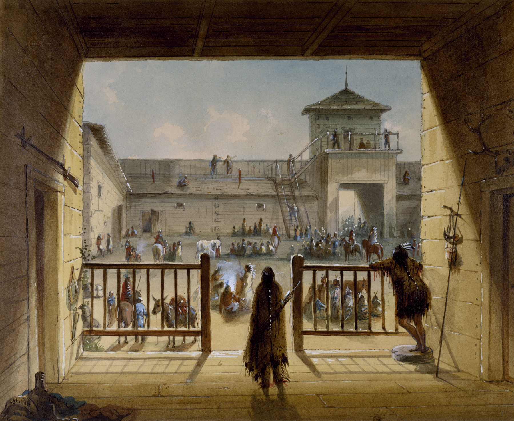 In the spring of 1837, Miller accompanied the Scottish adventurer Captain William Drummond Stewart (died 1871) to the fur traders' rendezvous held that year on the Green River in western Wyoming. At these gatherings trappers and Indians sold their furs and replenished supplies for the following winter. Miller subsequently used the sketches drawn on the trail as the basis for oil paintings for Stewart's ancestral estate, Murthly Castle in Perthshire, Scotland. After returning to Baltimore in 1842, he continued to replicate his sketches in oils and watercolors for American clients. In this scene Miller has provided the only visual record of the first Fort Laramie, erected in 1834. Located in eastern Wyoming, the fort marked the beginning of what would later become the Oregon Trail, the route that was taken by settlers moving west.